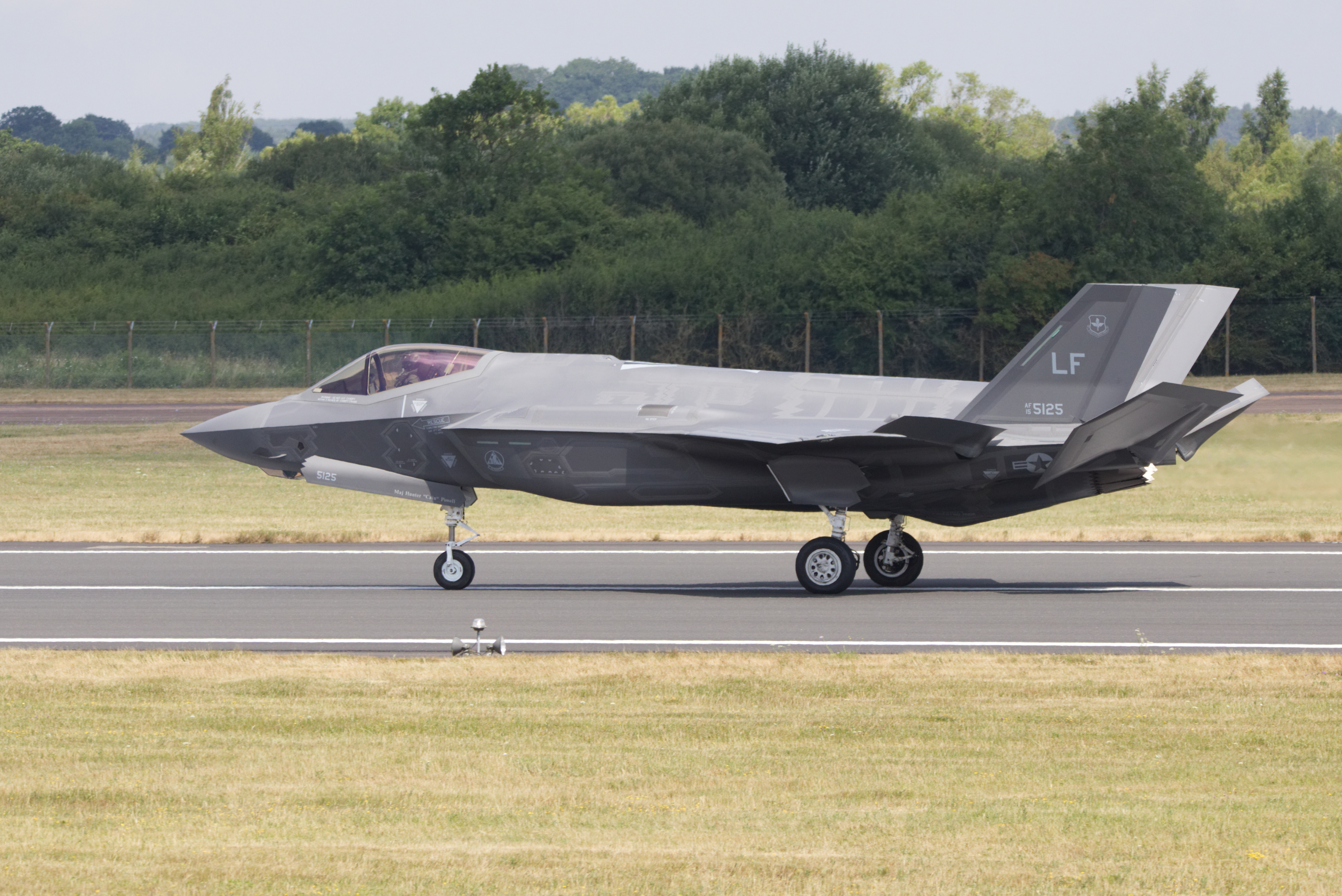 LM F-35A Lightning 5D4_0745